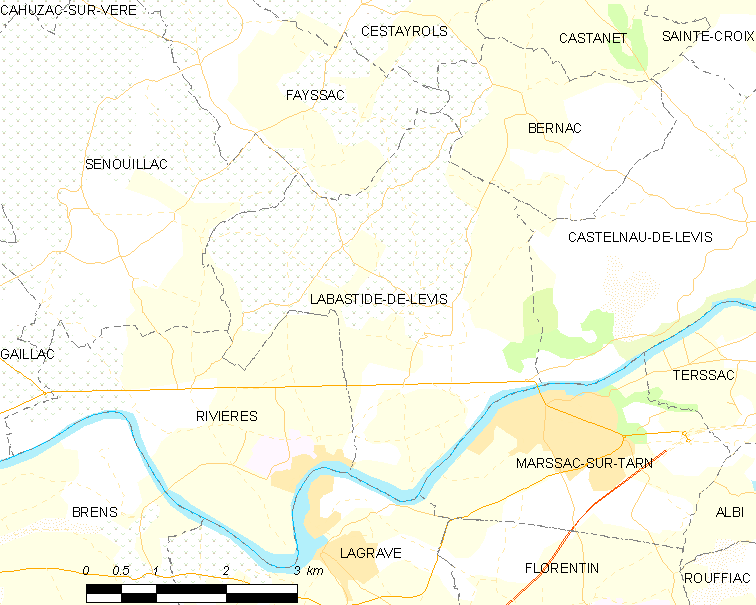 Map of French municipality Labastide-de-Lévis